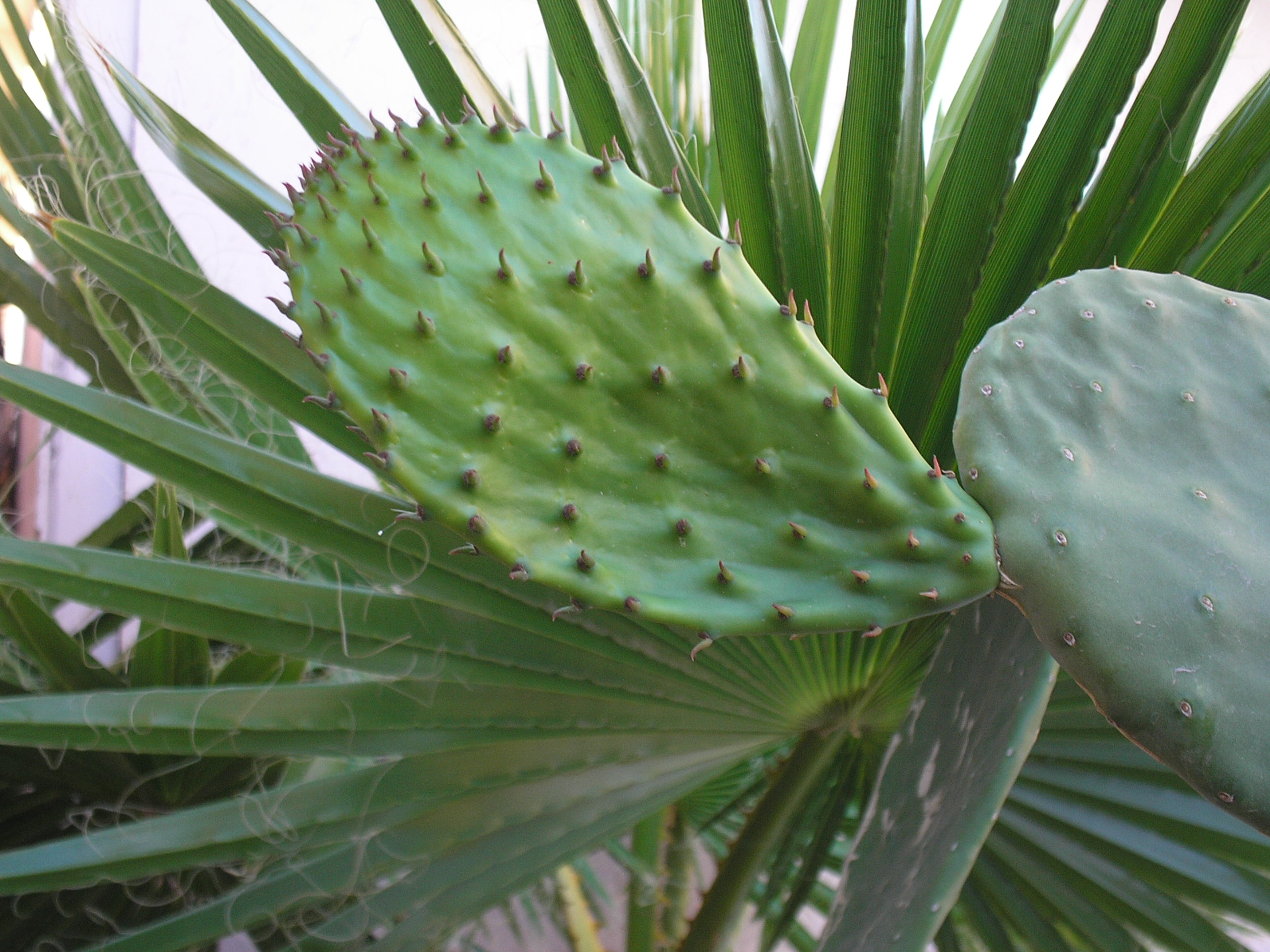 Stage 5 1/2 of prickly pear